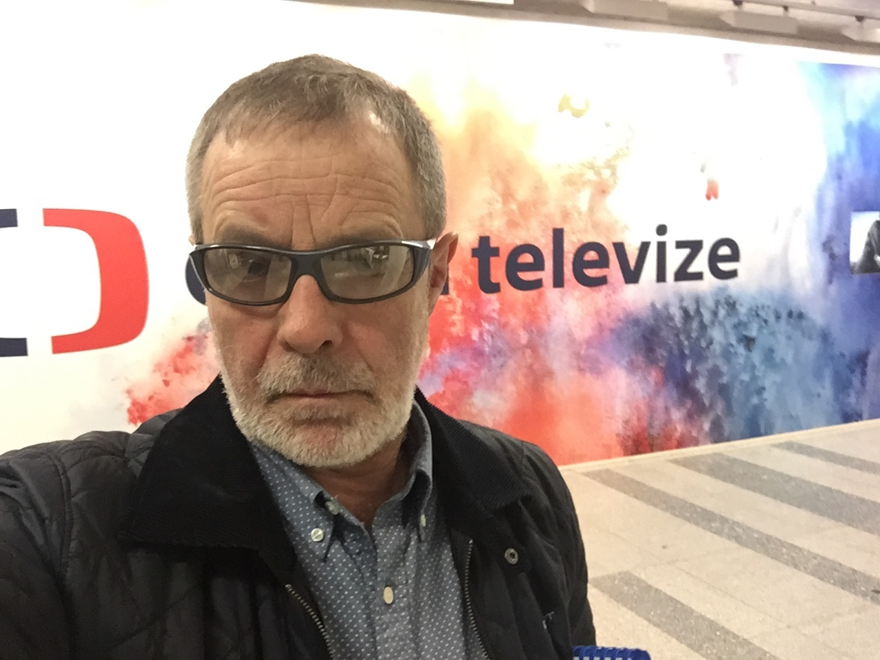 selfie